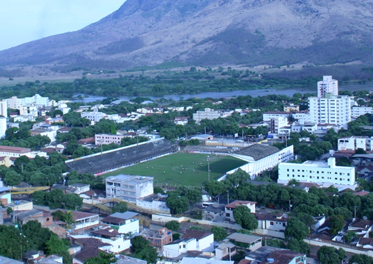 José Mammoud Abbas Estadium, in Governador Valadares, Minas Gerais, Brazil.